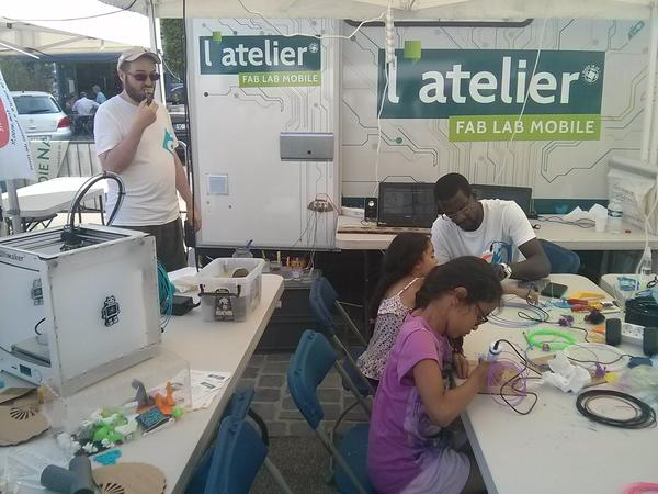 RMLL 2015 Beauvais